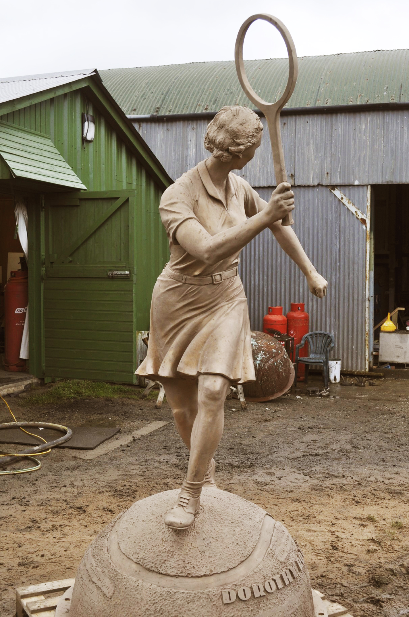 Dorothy Round Little portrait lifesize statue in bronze, beadblasted finish at the A4A studio foundry prior to patina colouring. The statue of the British Wimbledon Champion of the 1930's was commissioned by Dudley MBC for a site in Priory Park, Dudley from the British sculptor John McKenna ARBS.